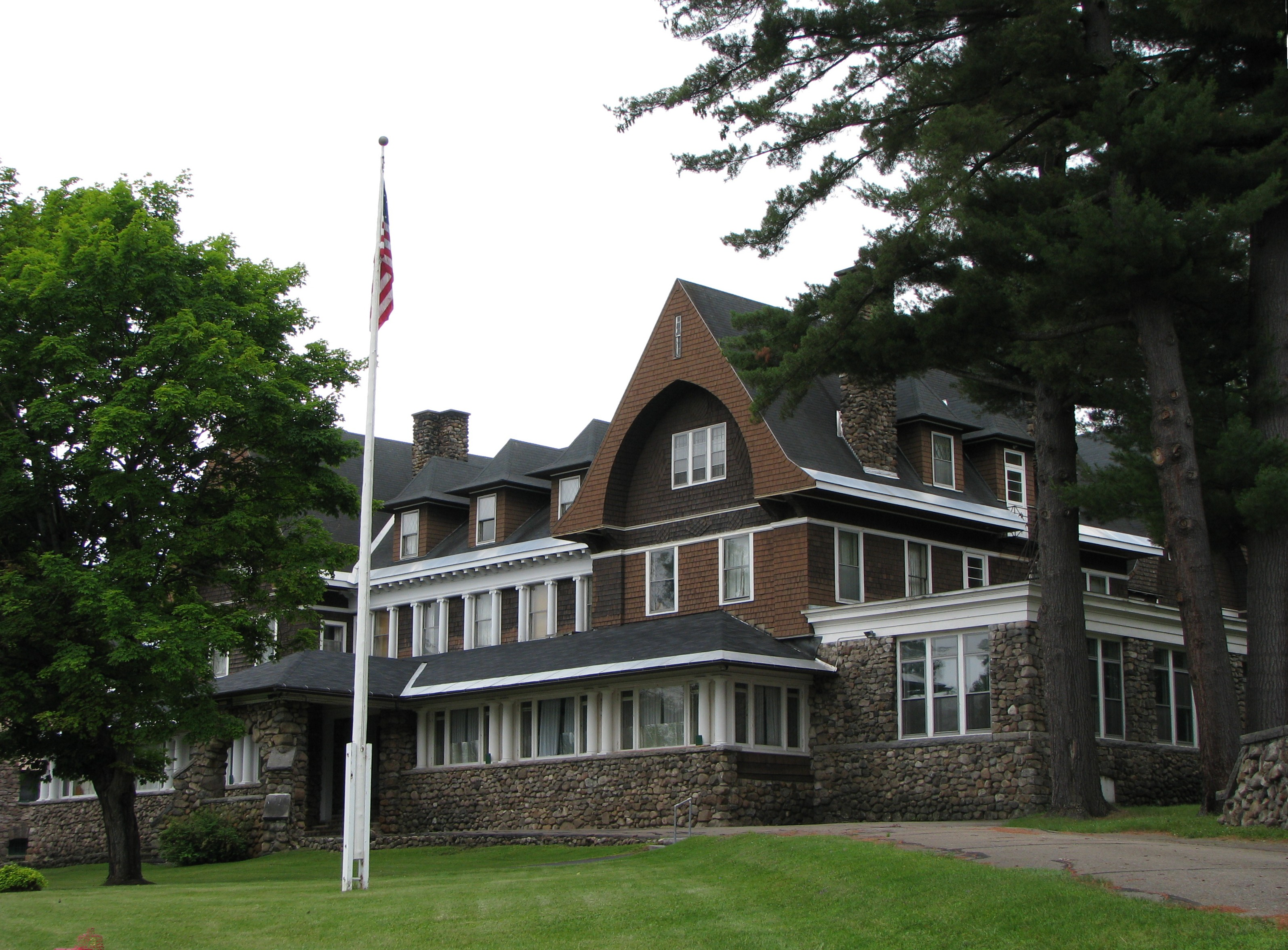 Administration Bldg, Adirondack Cottage Sanitarium, Saranac Lake, NY